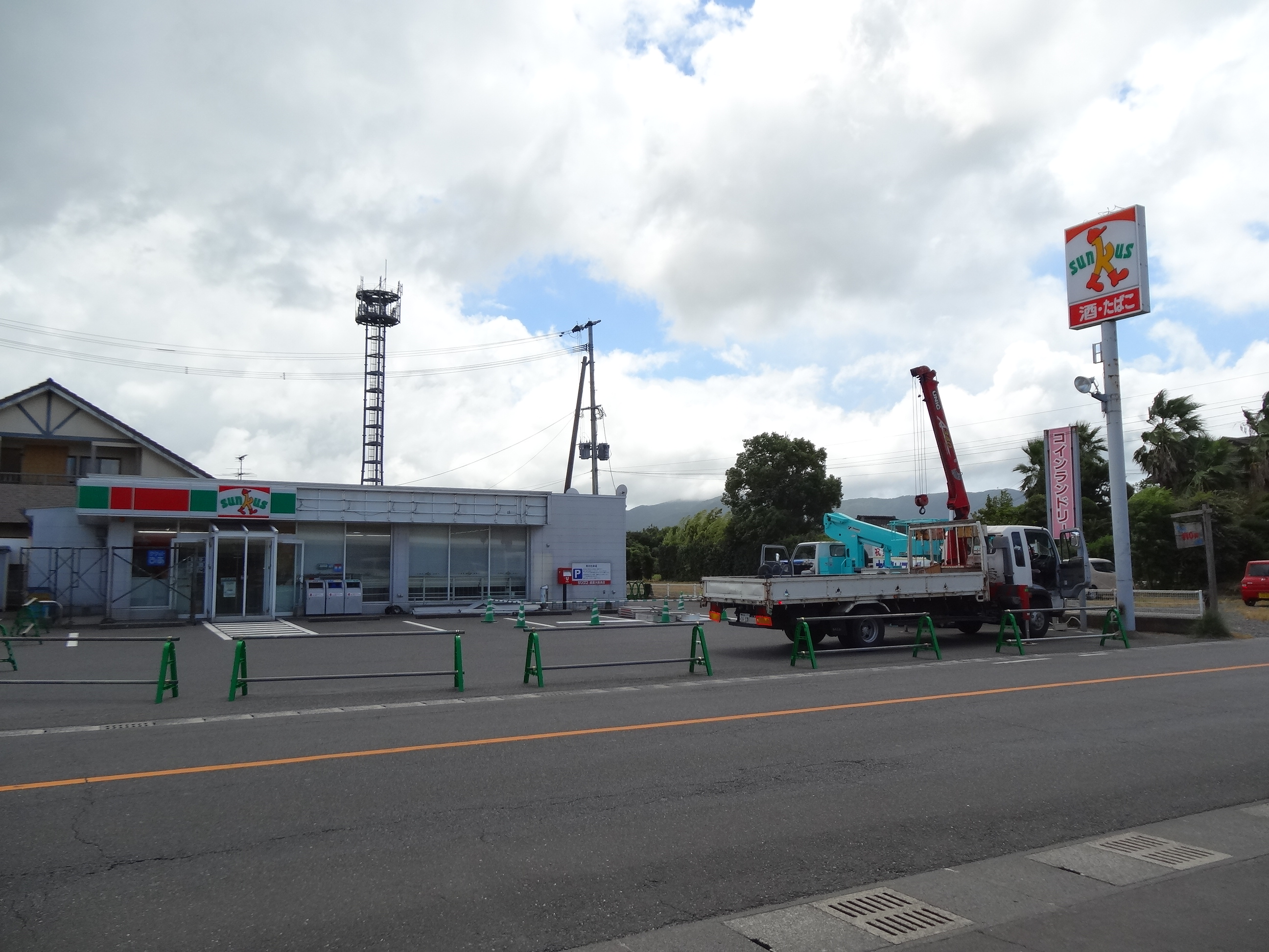 "Sunkus" Kanoya Ooaira Store, was Southernmost Circle K Sunkus (Japanese Convenience store) in Japan.